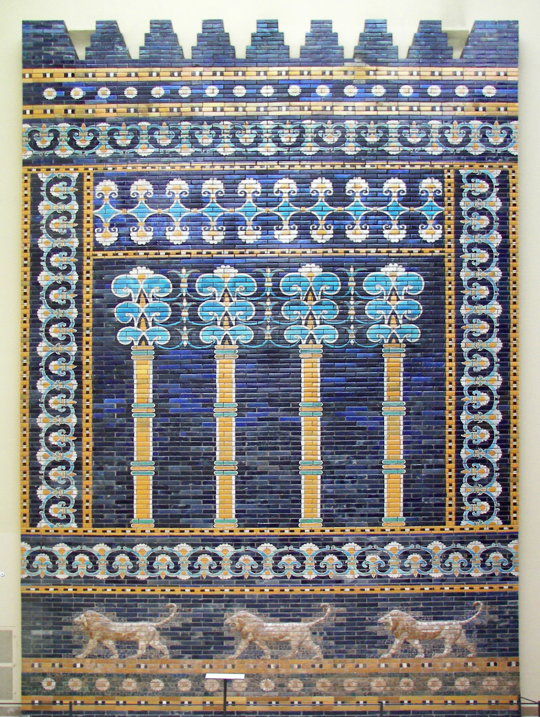 Facade of the Throne Room. Babylon, coloured, glazed bricks. 604-562 BCE. The Throne-Room was situated in the third courtyard complex of the royal palace. Its 56 m wide facade was decorated with coloured, glazed bricks. A tentative reconstruction show the composition of the upper part of the facade, including stylised palms and patterned registers. Two original sections are displayed on the left next to the Ishtar Gate. The lower part of the facade with representations of striding lions was predominantly reconstructed from the original baked brick fragments. The frieze of lions was presumably arranged symmetrically so that the animals faced toward the central main entrance to the throne-room (cf. the direction of movement in the reconstruction opposite). The throne-room was excavated by Robert Koldewey from 1899 to 1917. It was used as an official reception room.